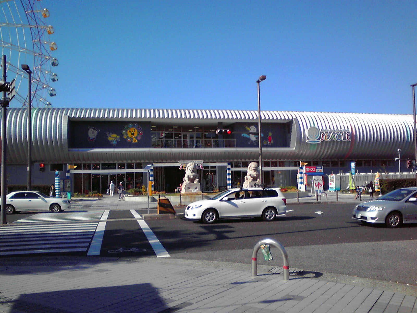 RINKU PLEASURE TOWN SEACLE